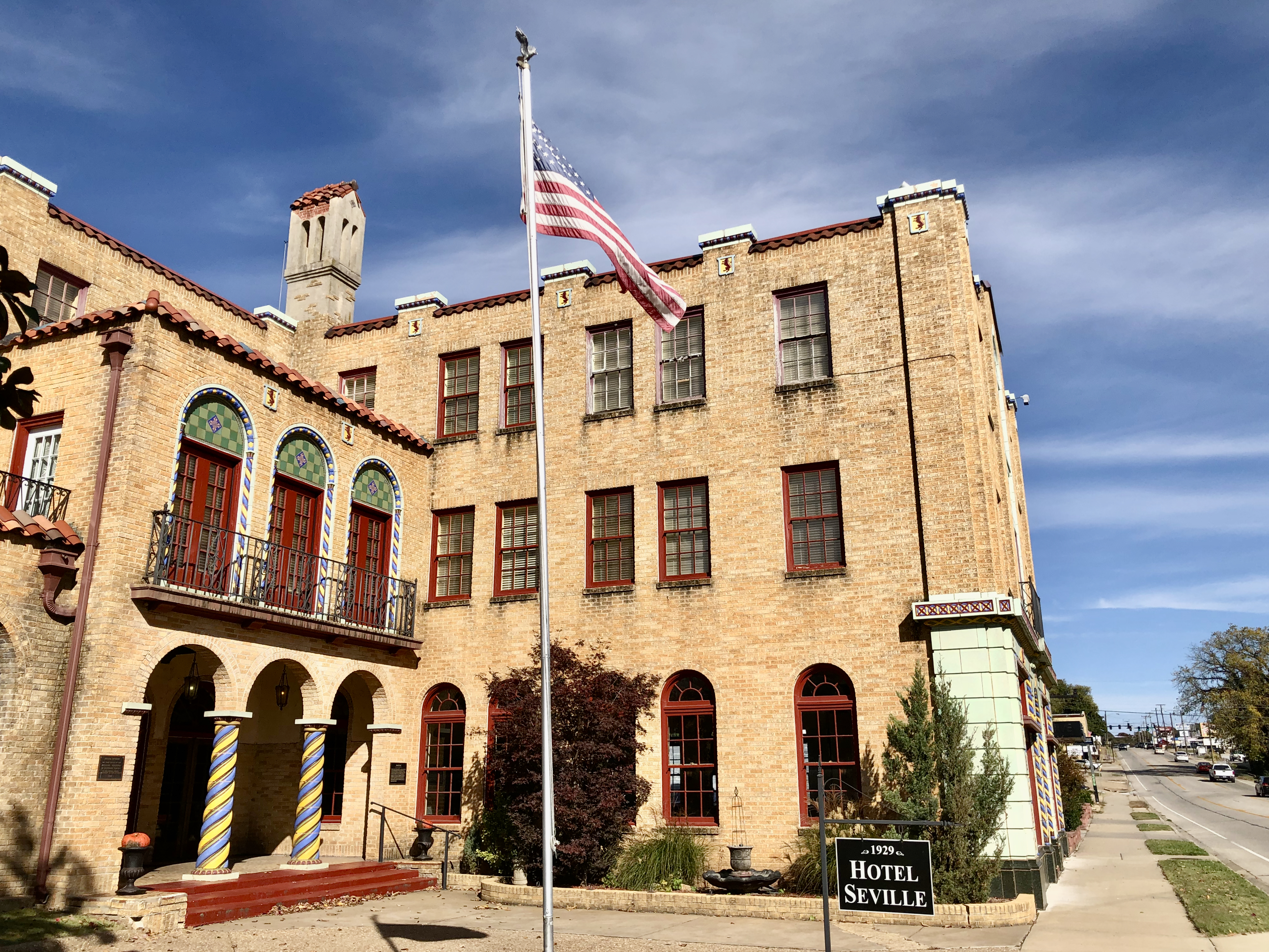 Three-story, Spanish Revival style 57-room hotel, located on North Main St. in Harrison, Arkansas.